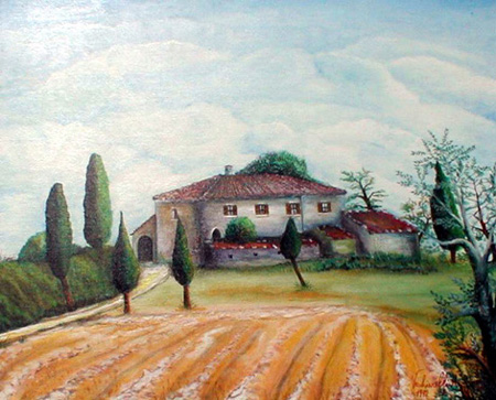 "Tuscan landscape in the province of Siena" Painting acrylic on canvas size 30 x 40 that the artist Antonio Vecchiarelli provides community Wikipedia.